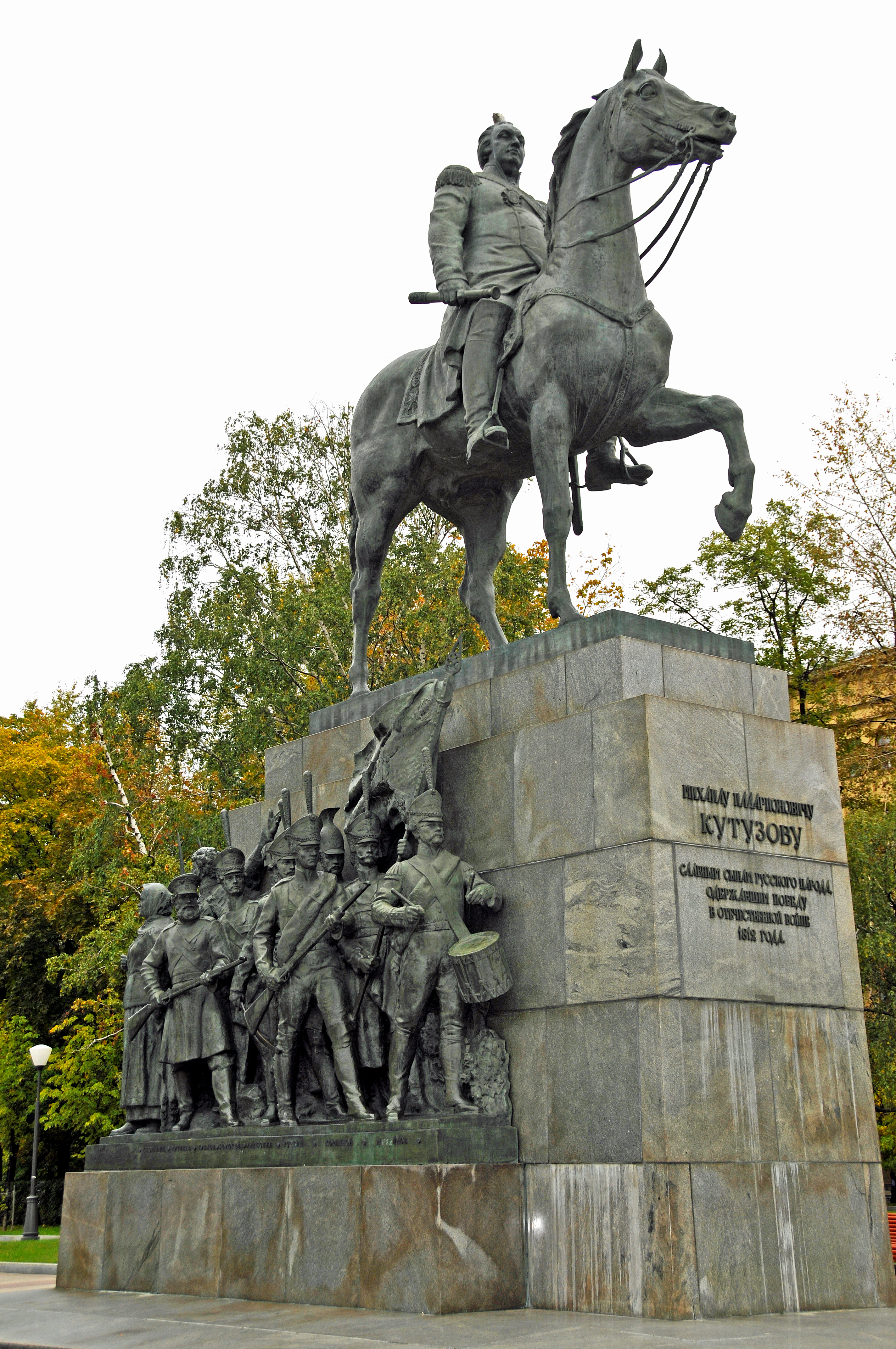 PLEASE, no multi invitations in your comments. Thanks. I AM POSTING MANY DO NOT FEEL YOU HAVE TO COMMENT ON ALL - JUST ENJOY.